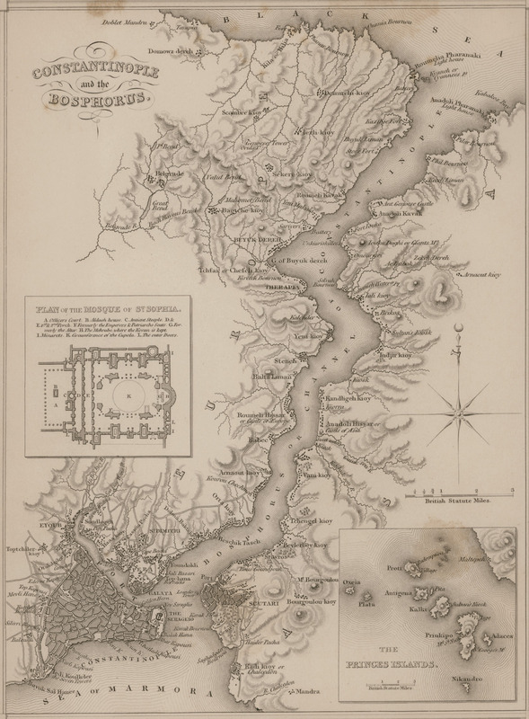 Illustration from Constantinople and the Scenery of the Seven Churches of Asia Minor illustrated…, With an historical Account of Constantinople, and Descriptions of the Plates…, London/Paris, Fisher, Son & Co. (1836-38), by Robert Walsh and Thomas Allom